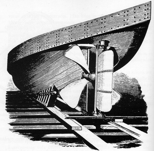 One of John Ericsson's Monitors being built and displaying huge propeller